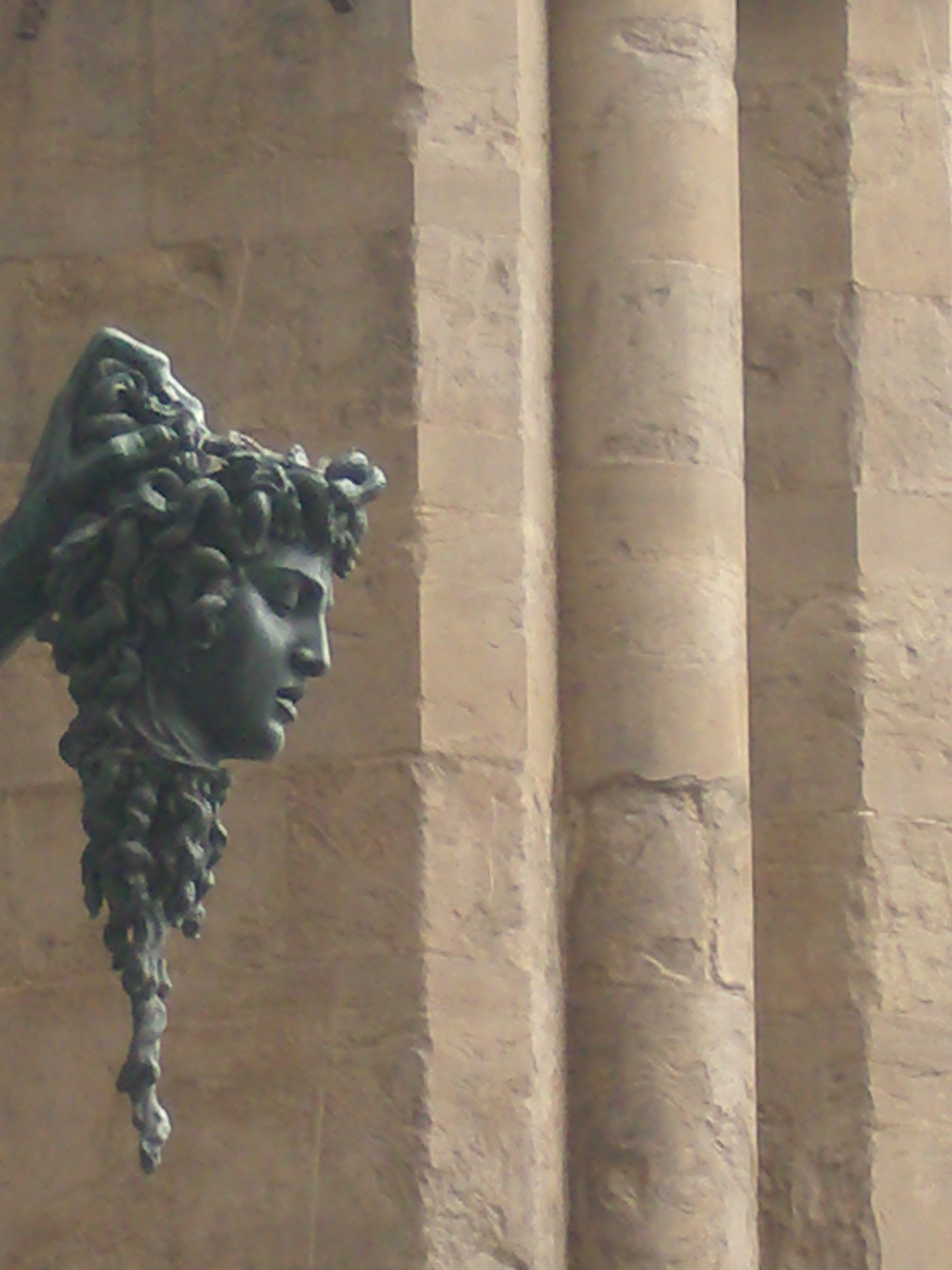 The head of Medusa held aloft by Perseus, outside of the Palazzo Vecchio in Florence. The statue is by Benvenuto Cellini.